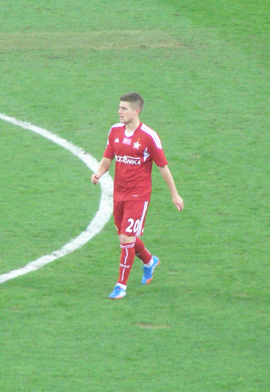 Gdańsk - the Ekstraklasa match Lechia Gdańsk vs. Wisła Kraków at PGE Arena stadium; Michał Chrapek (Wisła)